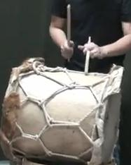 Colombian drum